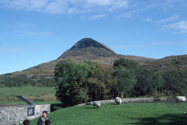 Diamond Hill. Connemara National Park. From the Park visitors centre.